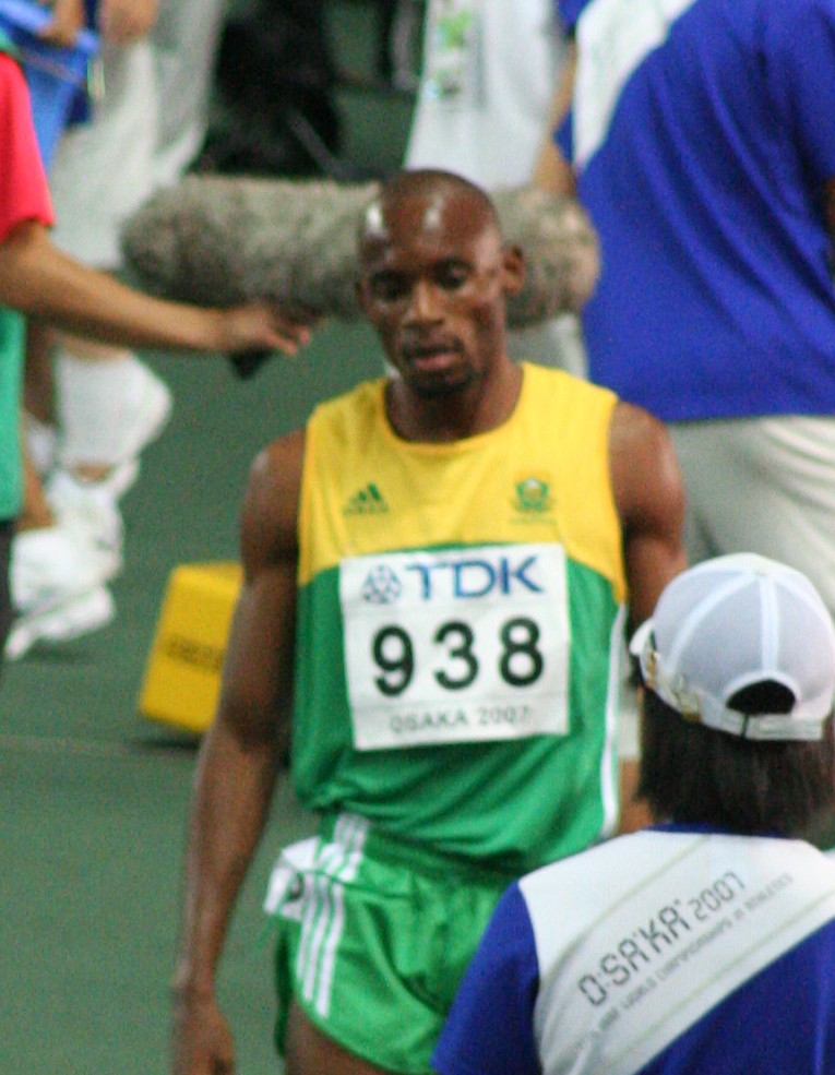 World Athletics Championships 2007 in Osaka - South African 800 metres runner Mbulaeni Mulaudzi after the semifinal